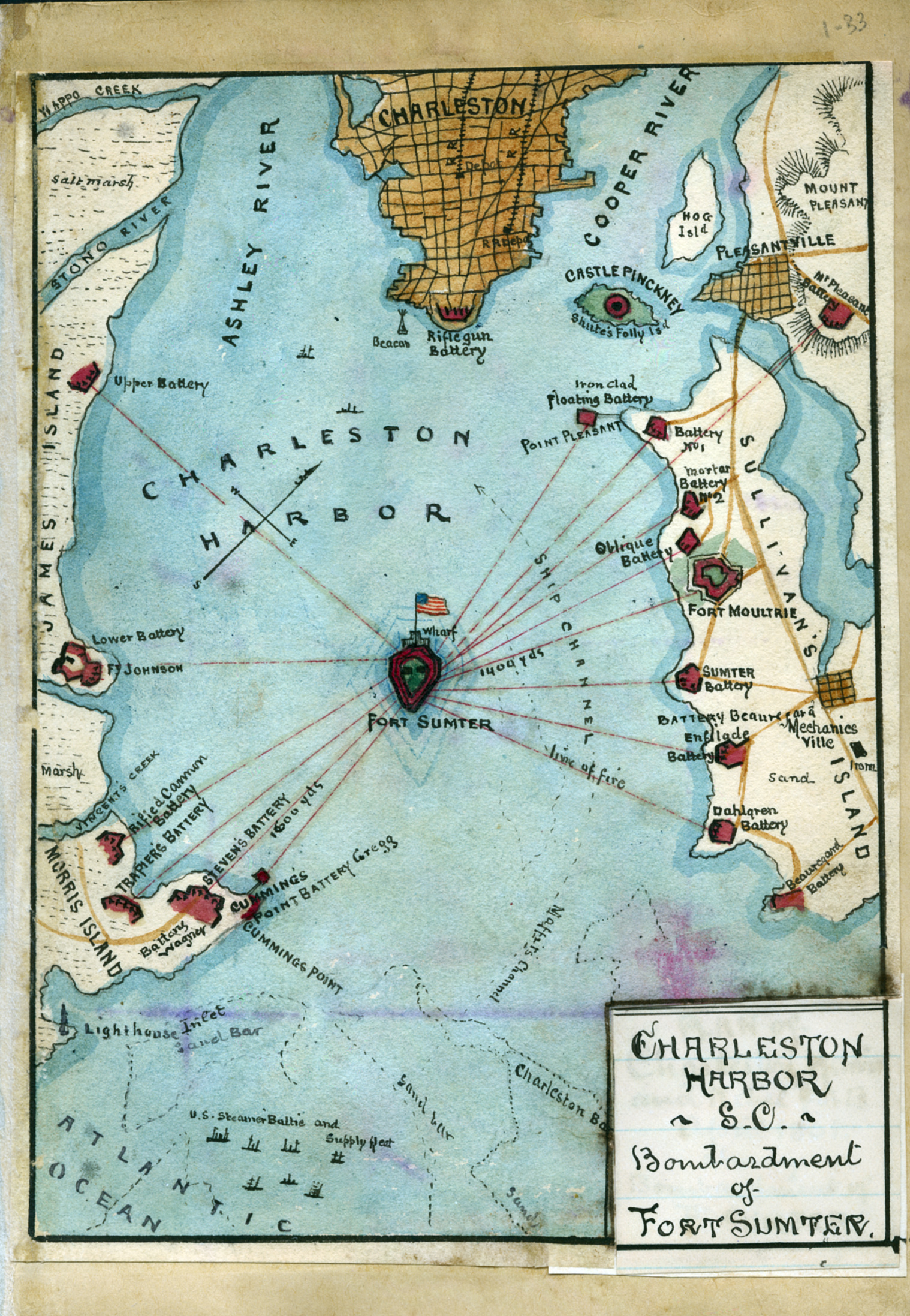 Regional view of Charleston Harbor showing the city of Charleston on the Ashley and Cooper rivers, Castle Pinckney on Shute's Folly Island, Pleasantville and Mt. Pleasant Battery, Mechanicsville and batteries on Sullivan's Island, and the Morris and James island batteries, and their distances from Fort Sumter. Shipping channels and the U.S. warships and supply fleet are also noted.